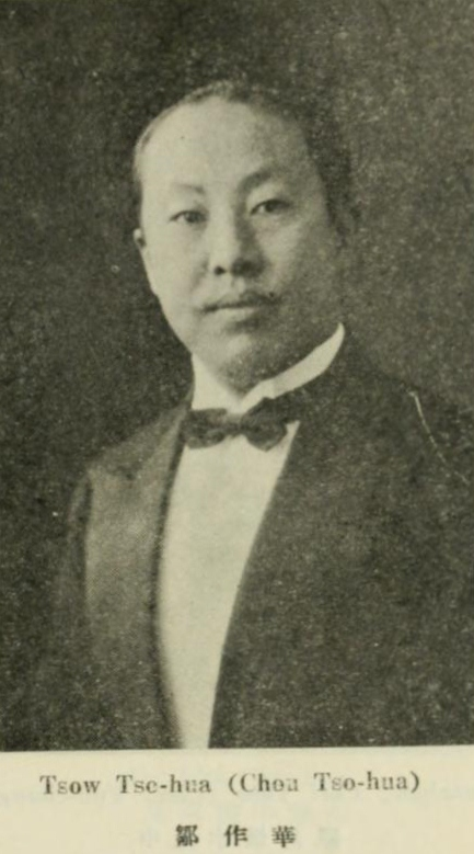 Zou Zuohua (Tsou Tso-hua) (1894 - 1973)